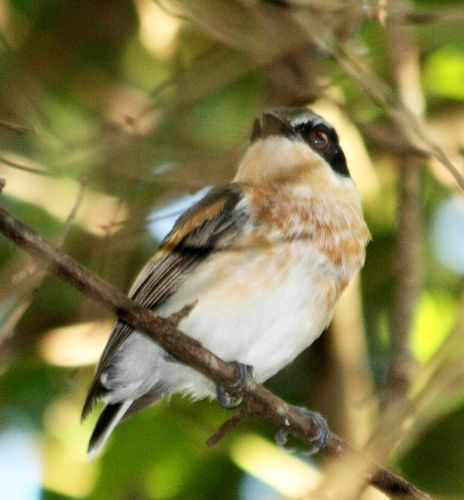 A female Woodward's Batis or Zululand Batis (Batis fratrum) at Cape Vidal, KwaZulu-Natal, South Africa.